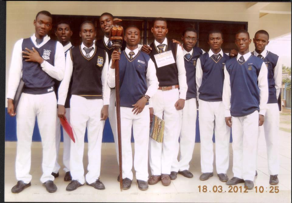 school prefects